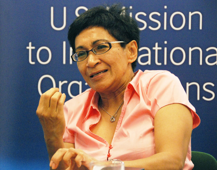 Dr. Mazlan Othman, Director of the United Nations Office for Outer Space Affairs, briefs media representatives on current developments in the peaceful uses of outer space.